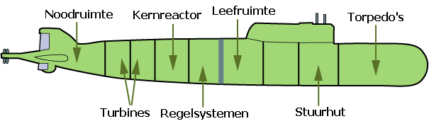 Description of the 9 compartments of the Russian submarine K-141 Kursk